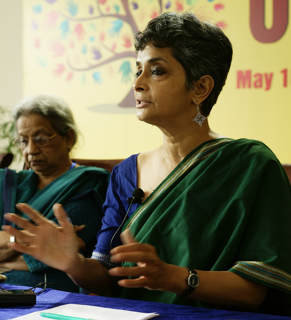 Nivedita Menon in May 2015